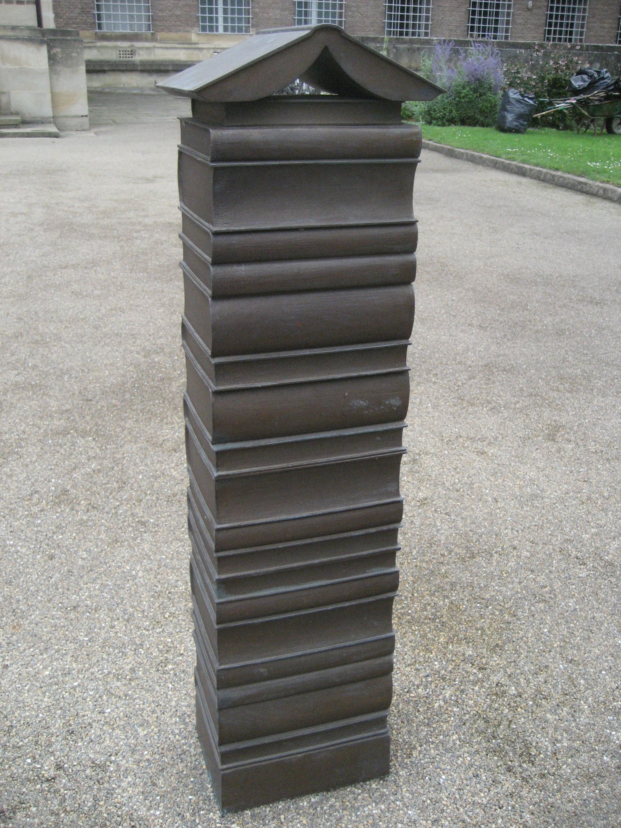 One of 14 bronze book bollards in front of Cambridge University Library, England (UK). "Ex libris", designed by Harry Gray (Carving Workshop, Cambridge)